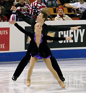 Tiffany Scott competes with former partner Philip Dulebohn in their short program at the 2004 Four Continents Championships in Hamilton, Ontario. Photo taken by me, Vesperholly 05:23, 17 July 2006 (UTC)